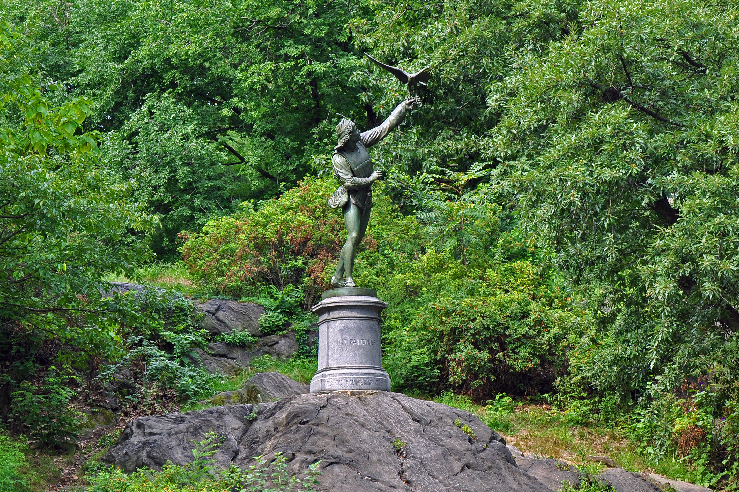 The Falconer, Central Park, New York, agosto 2011